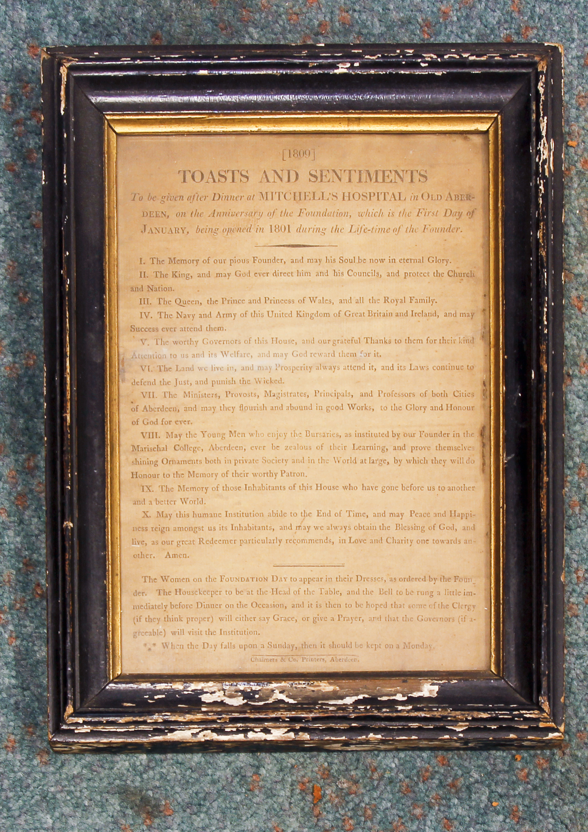 Toasts to be said at Founder's Dinner 31st January - each year.